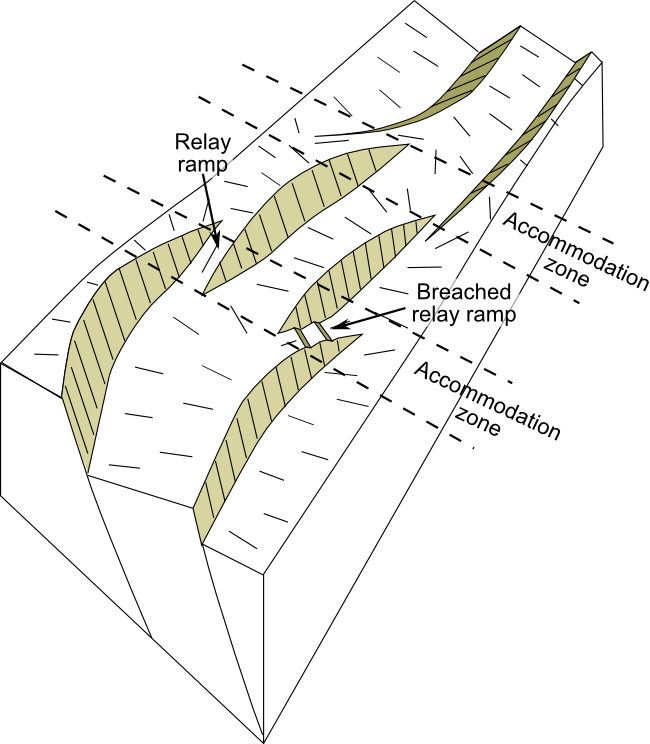 Cartoon of geometries caused by segmentation of a rift and change in polarity of the constituent half-grabens - simple relay-ramp and a breached relay-ramp are indicated